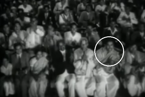 Telugu film director K.V.Reddy's cameo appearance in Swarga Seema